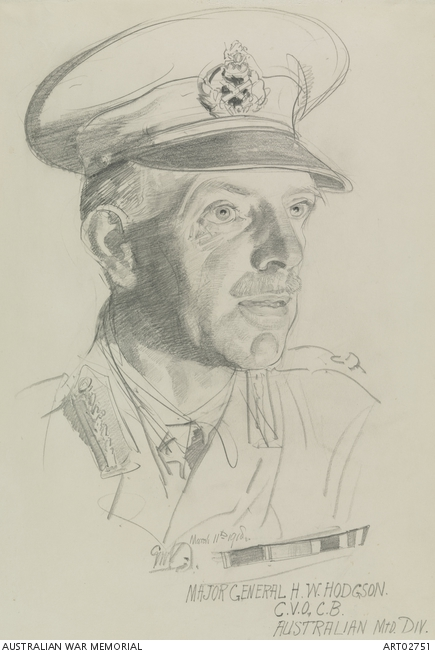 "Copyright expired - public domain - Major-General Sir Henry Hodgson, DCMG, CB, CVO was an officer of the British Regular Army. He served at Gallipoli and commanded the Western Force in Egypt against the Senussi. In Feb 1917, he was given command of the Imperial Mounted Division, later the Australian Mounted Division" This image is Crown Copyright because it is owned by the Australian Government or that of the states or territories, and is in the public domain because it was created or published prior to 1969 and the copyright has therefore expired. The government of Australia has declared that the expiration of Crown Copyrights applies worldwide. This has been confirmed by correspondence received by OTRS (Ticket:2017062010010417). This work is in the public domain in the United States because it meets three requirements: it was first published outside the United States (and not published in the U.S. within 30 days), it was first published before 1 March 1989 without copyright notice or before 1964 without copyright renewal or before the source country established copyright relations with the United States, it was in the public domain in its home country (Australia) on the URAA date (1 January 1996). For background information, see the explanations on Non-U.S. copyrights.Note: This tag should not be used for sound recordings.